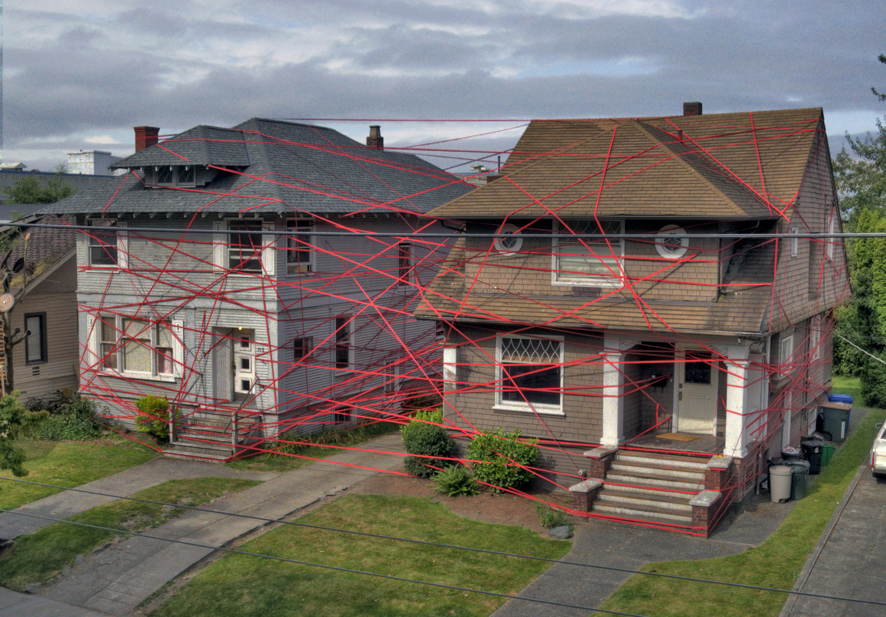 Ties That Bind, MadHomes, Seattle, WA 2011 12,000’ custom ratchet straps This project speaks to the ideas of home, neighbors and community. We generally don’t get to pick whom we have for neighbors in the same way we don’t get to pick our families yet we are bound to these people. We are reminded that there is much more that ties us together than proximity. The act of binding has both positive and negative connotations. A wound needs to be bound in order to heal; a machine breaks due to binding parts. A bond can intimate the love between parents and their children or a difficult situation. I am in a real bind here. It is cohesion and unity at the same time it is tight and restrictive. The project is a physical manifestation of this dualism.